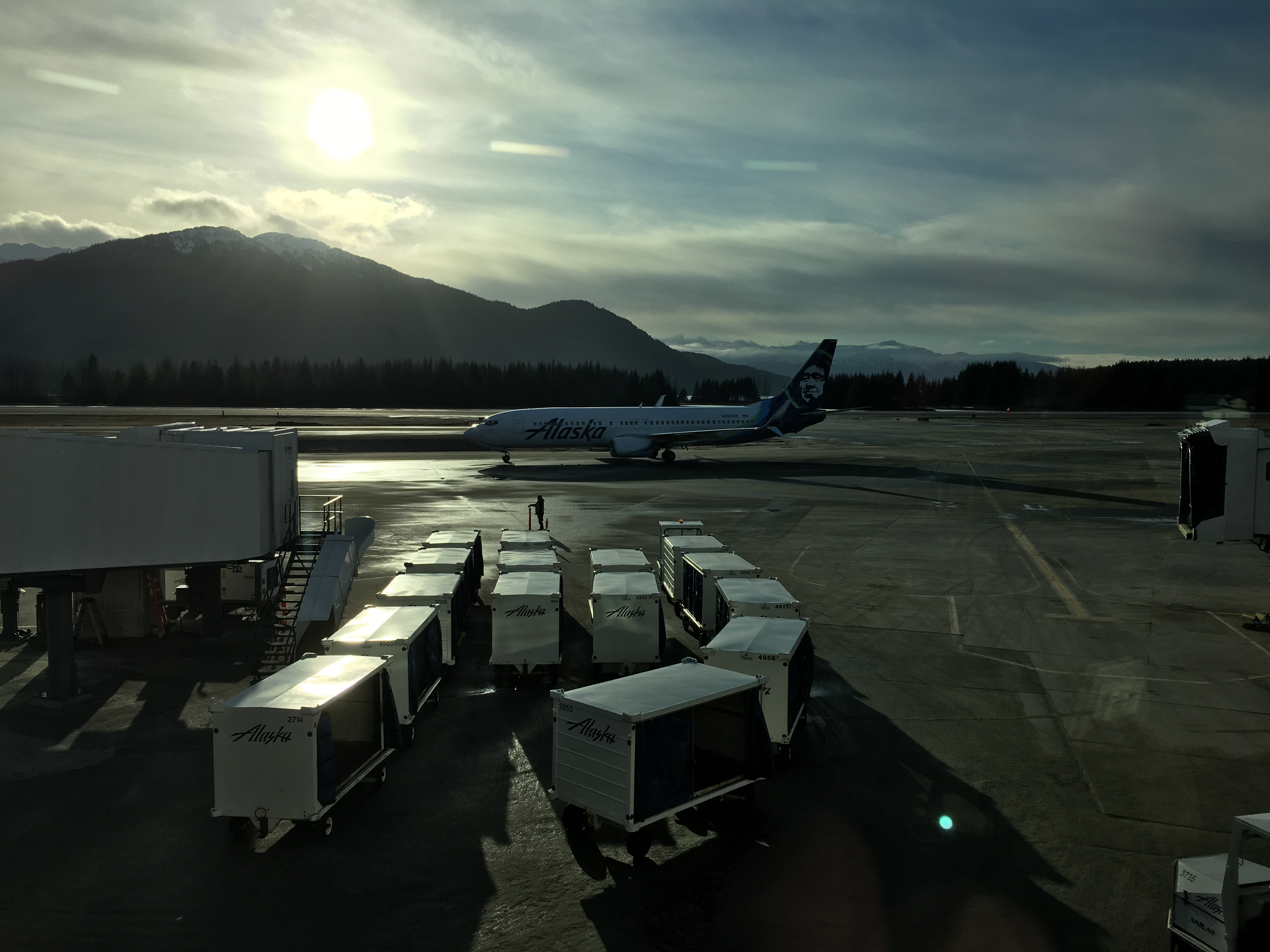 Alaska Airlines Boeing 737 at Juneau